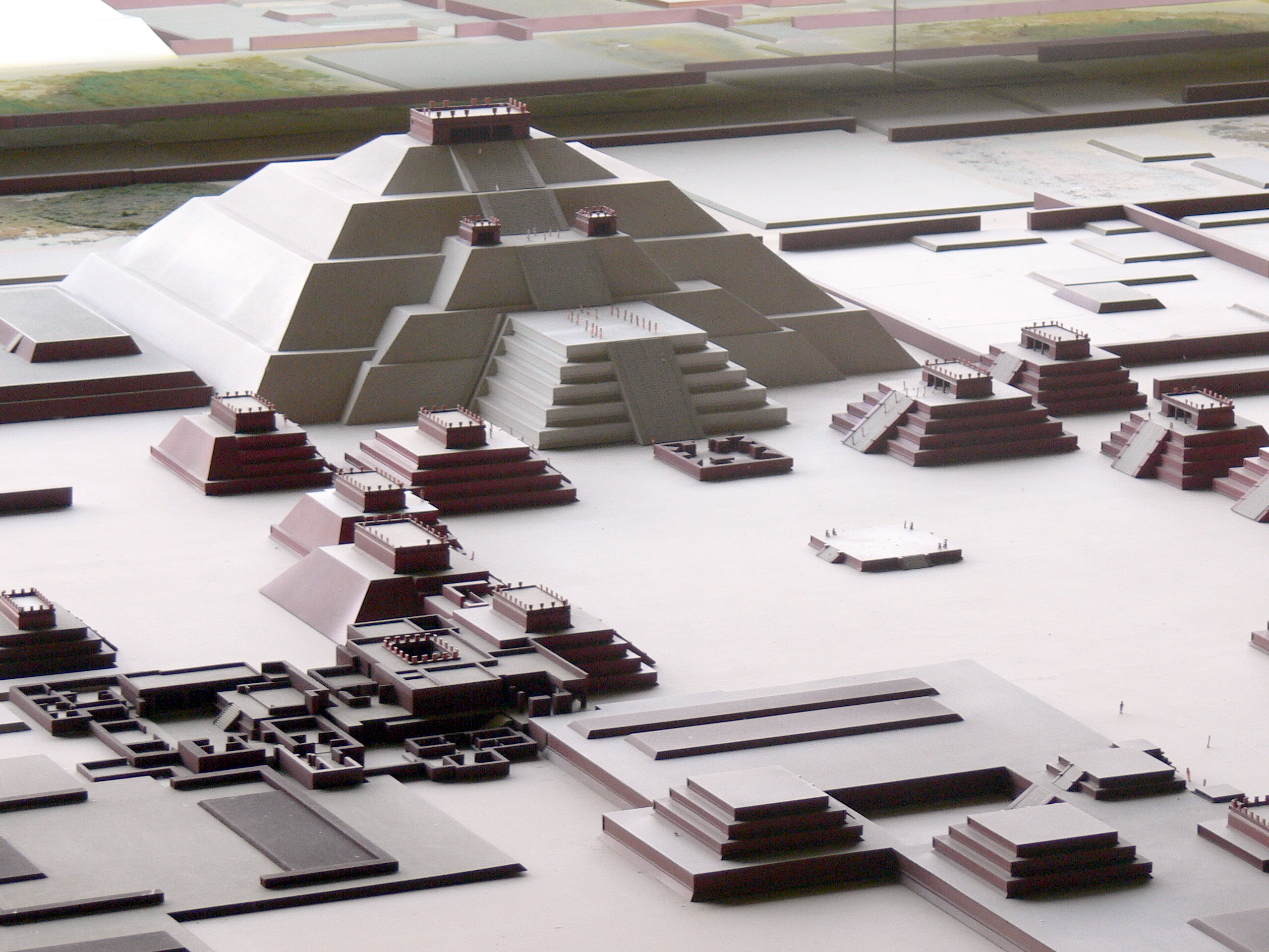 Museo del sitio, Teotihuacán. Reconstruction of the Pyramid of the Moon